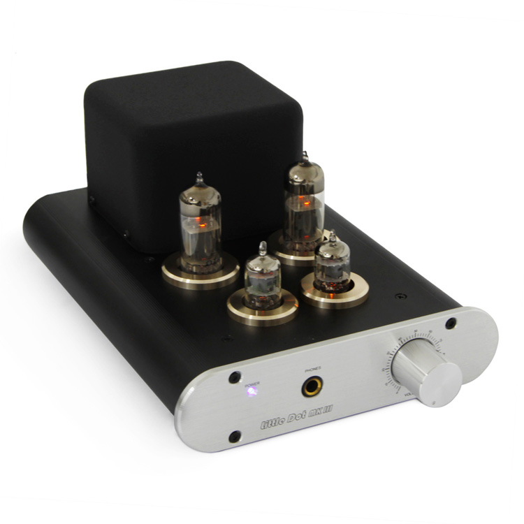 Little Dot MK III headphone amplifier using tubes and ALPS-16 potentiometer.